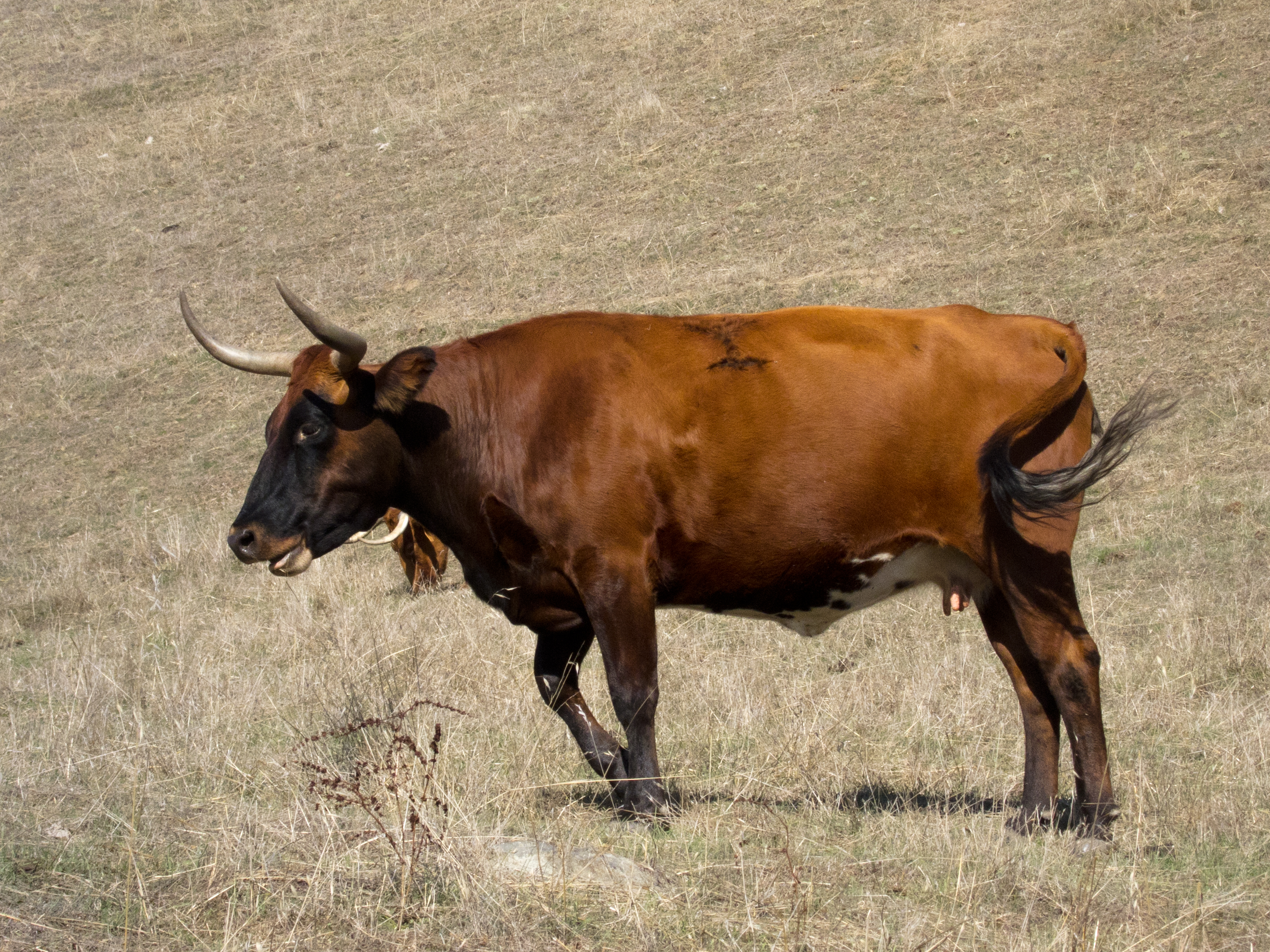 Corriente cow with black face and tail, Sierra Vista Open Space Preserve, California, October 2011.